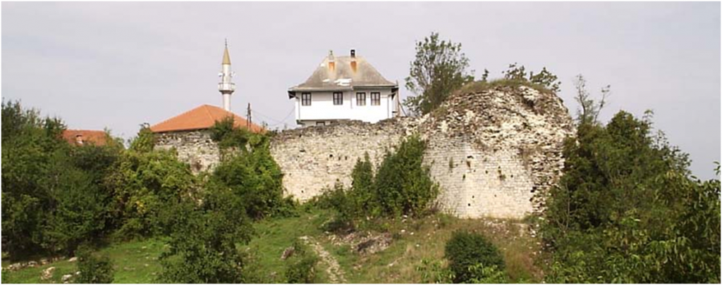 Old town Pecigrad